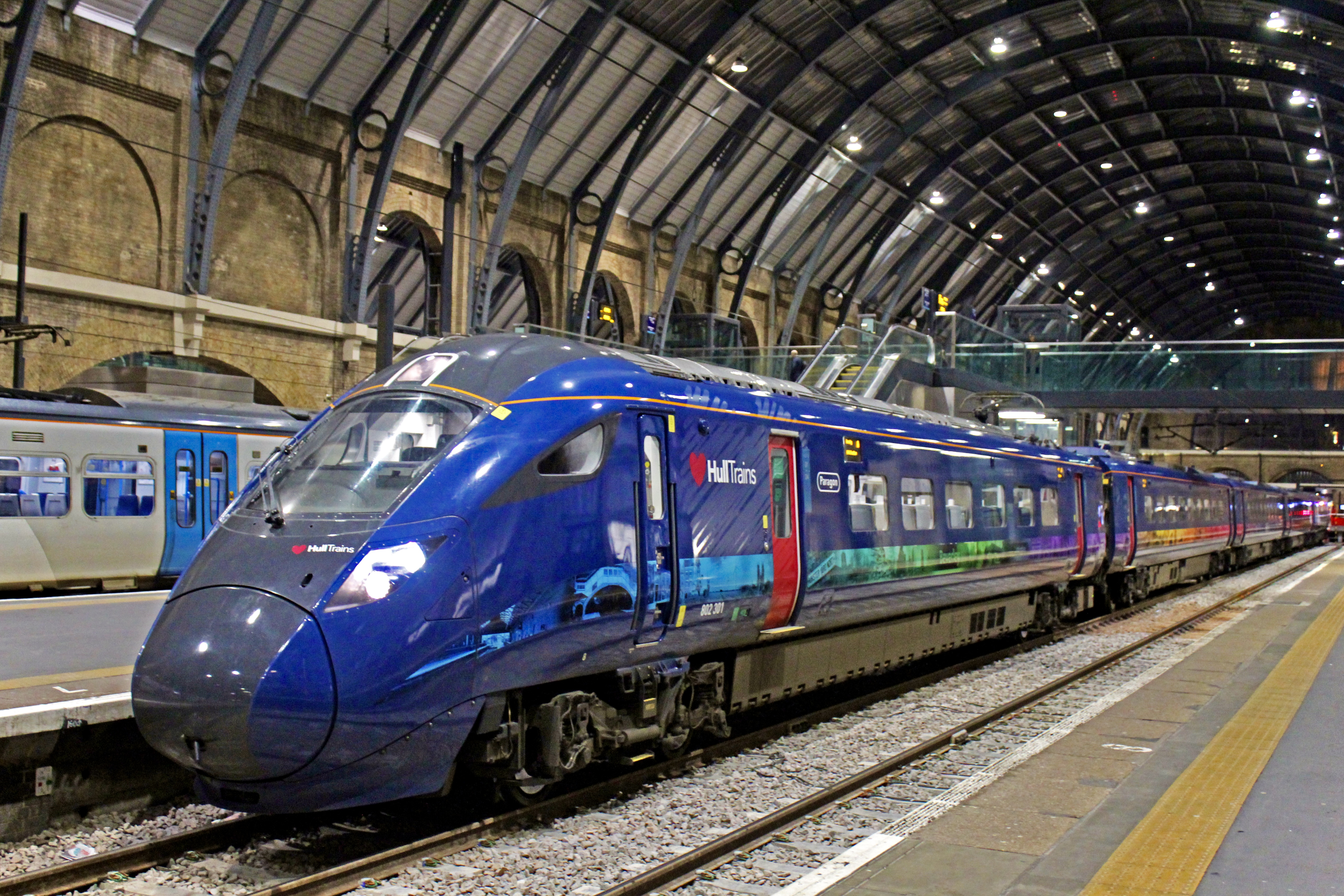 Paragon 802301 is seen at London Kings Cross with a service to Beverley.